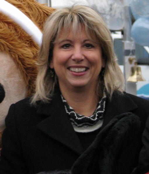 The present mayor of Surrey, Canada, Dianne Watts , attends the 2008 Surrey WinterFest in Central City (Whalley) on February 9, 2008. Photo by John Bollwitt of Vancouver, Canada.